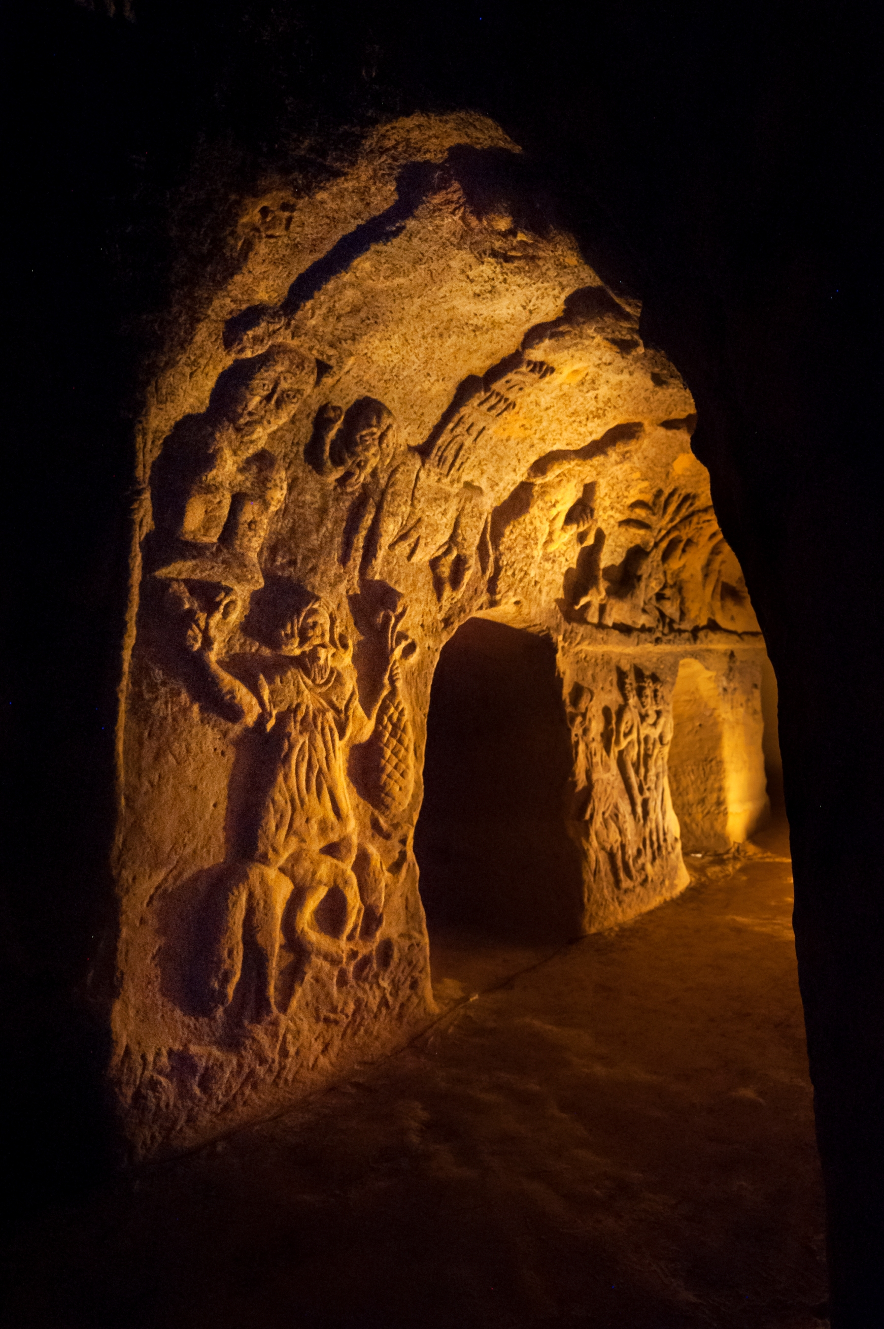 Caves Palazzo Campana 7